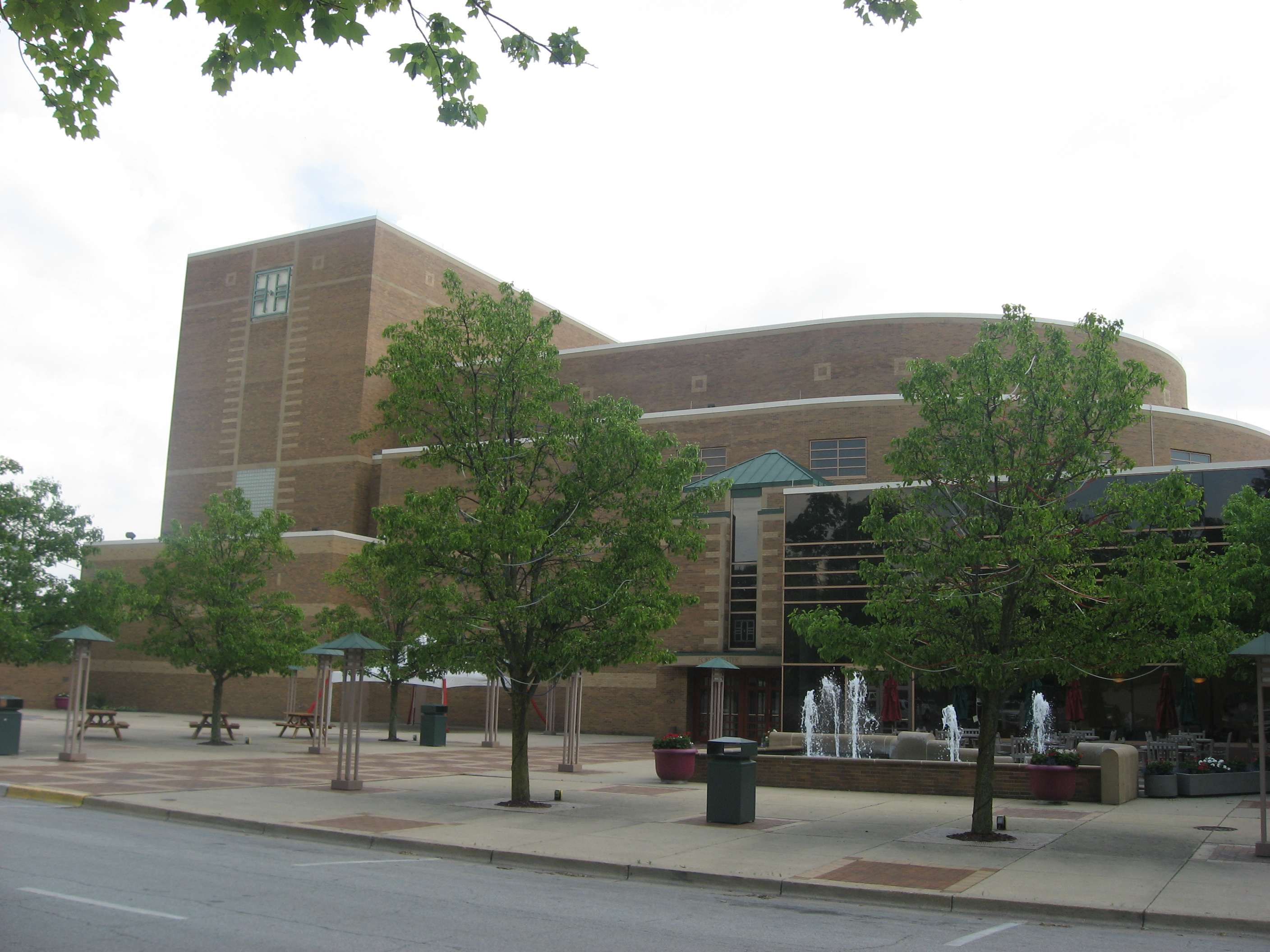 Northern side of the Honeywell Memorial Community Center, located at 275 W. Market Street along State Road 15 in Wabash, Indiana, United States. Built in 1940, it is listed on the National Register of Historic Places.